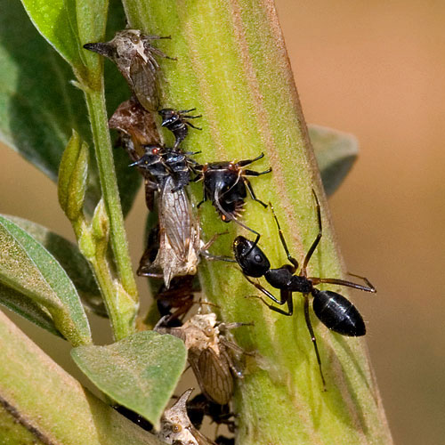 Shot this outside Bangalore City, India.